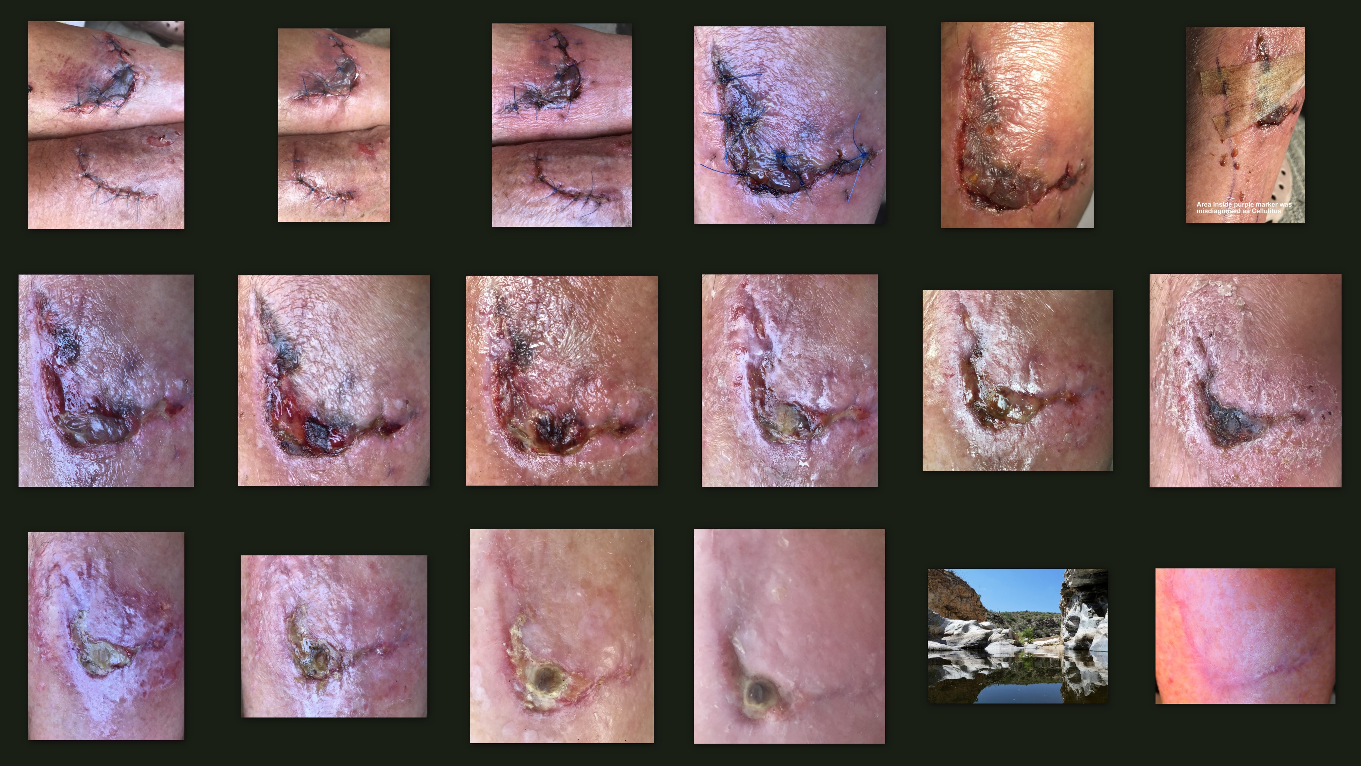 On June 3, 2017 I injured myself hiking. Not sure how it happened, all I know I was slipping and then fell backwards into the water. As I fell I could see the injury on my shin and said to myself, "you're OK Raquel." Hand was also injured, still have hematoma on my cheekbone. Was treating it with Neosporin but later a wound specialist gave me medicinal honey made with special pollen from New Zealand. The same doctor who stitched me up misdiagnosed skin infection (Cellulitis, note the purple marker on my leg) and gave me nasty antibiotics (Clindamycin), which made me feel sick. Had to hike a mile by myself to the car in 103-degree weather. I soaked my dress in the water, ate an Ativan and drove to the hospital. Doctor asked if anything hurt, I said "no." Endorphins are powerful painkillers, I kept telling them, "I'm lucky to be alive"! Took about 5 weeks to heal. Canyon is where it happened, over on the left, out of the picture. It was the last pic I took that day.